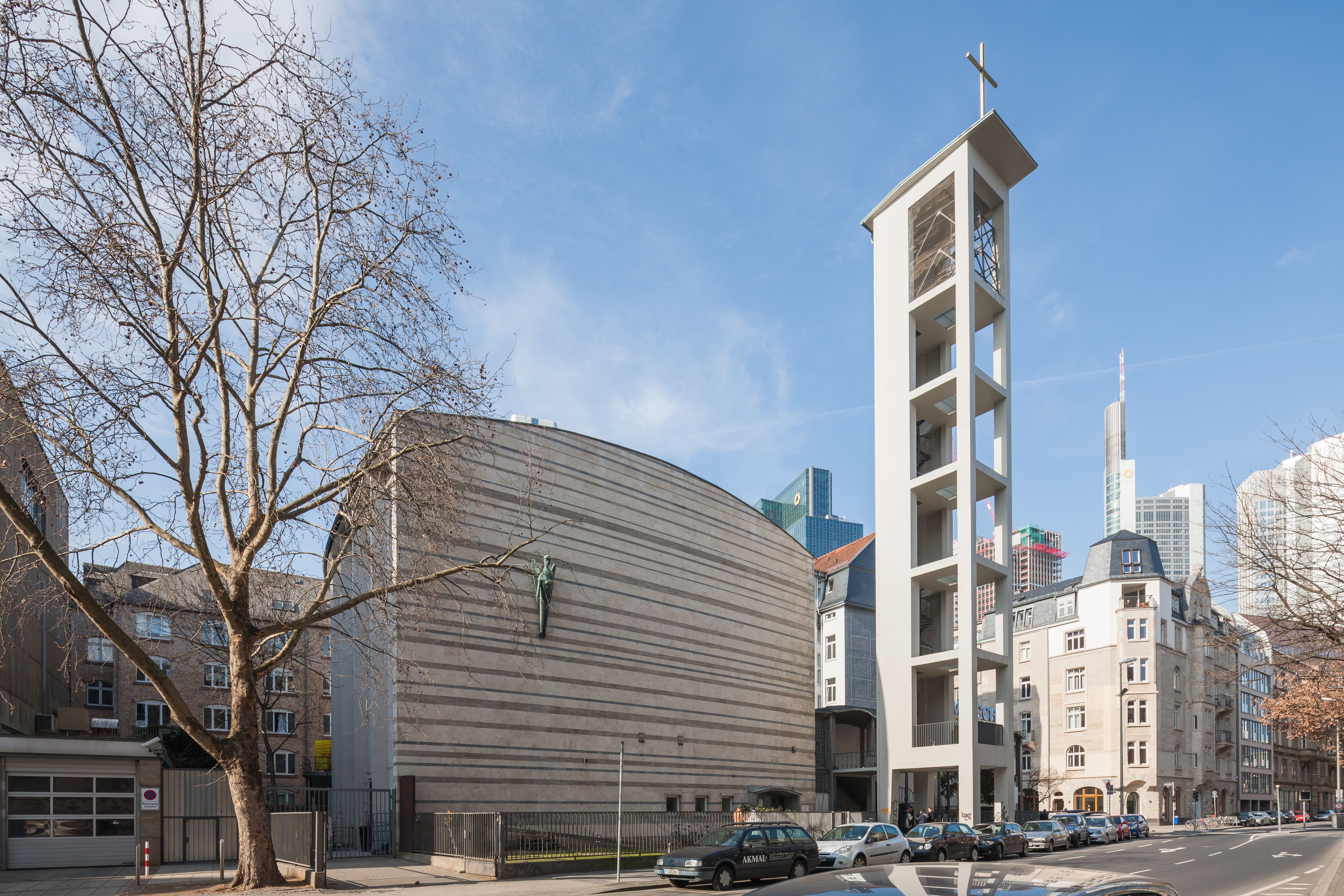 Frankfurt on the Main: Weißfrauenkirche (St. Mary Magdalene's Church) as seen from the southwest